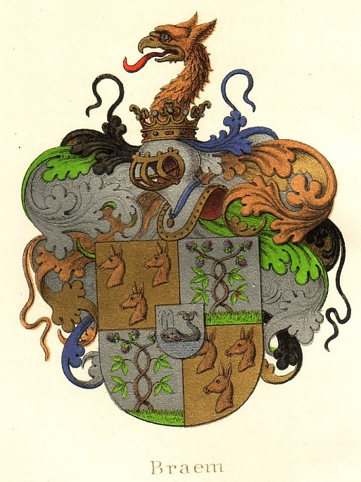 Coat of arms of the Braem family